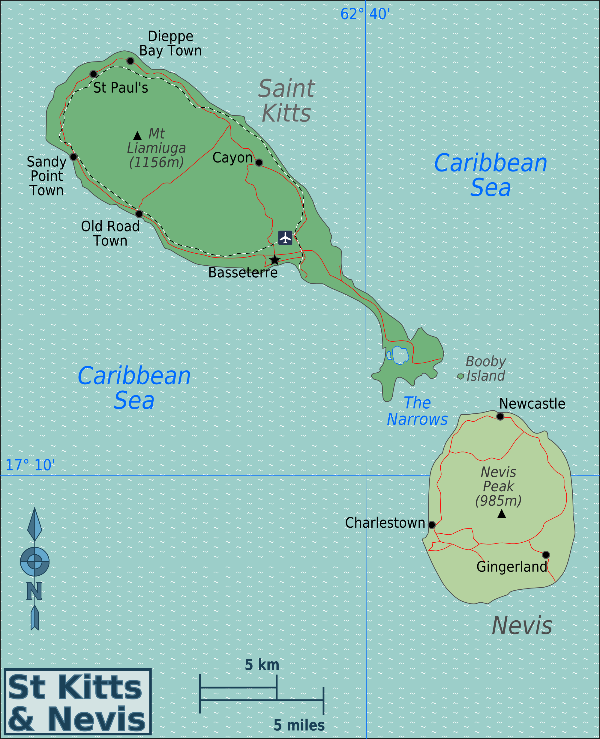 Map of Saint Kitts and Nevis (Caribbean) for use on Wikivoyage, English version